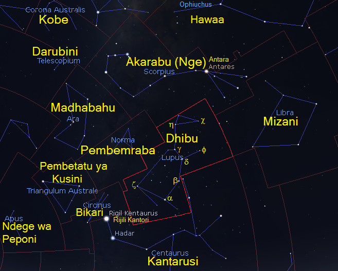 Constellation Lupus as seen from Tanzania, Swahili labelled Kiswahili: Kundinyota Dhibu (Lupus) jinsi inavyoonekana kutoka Tanzania, majina kwa Kiswahili